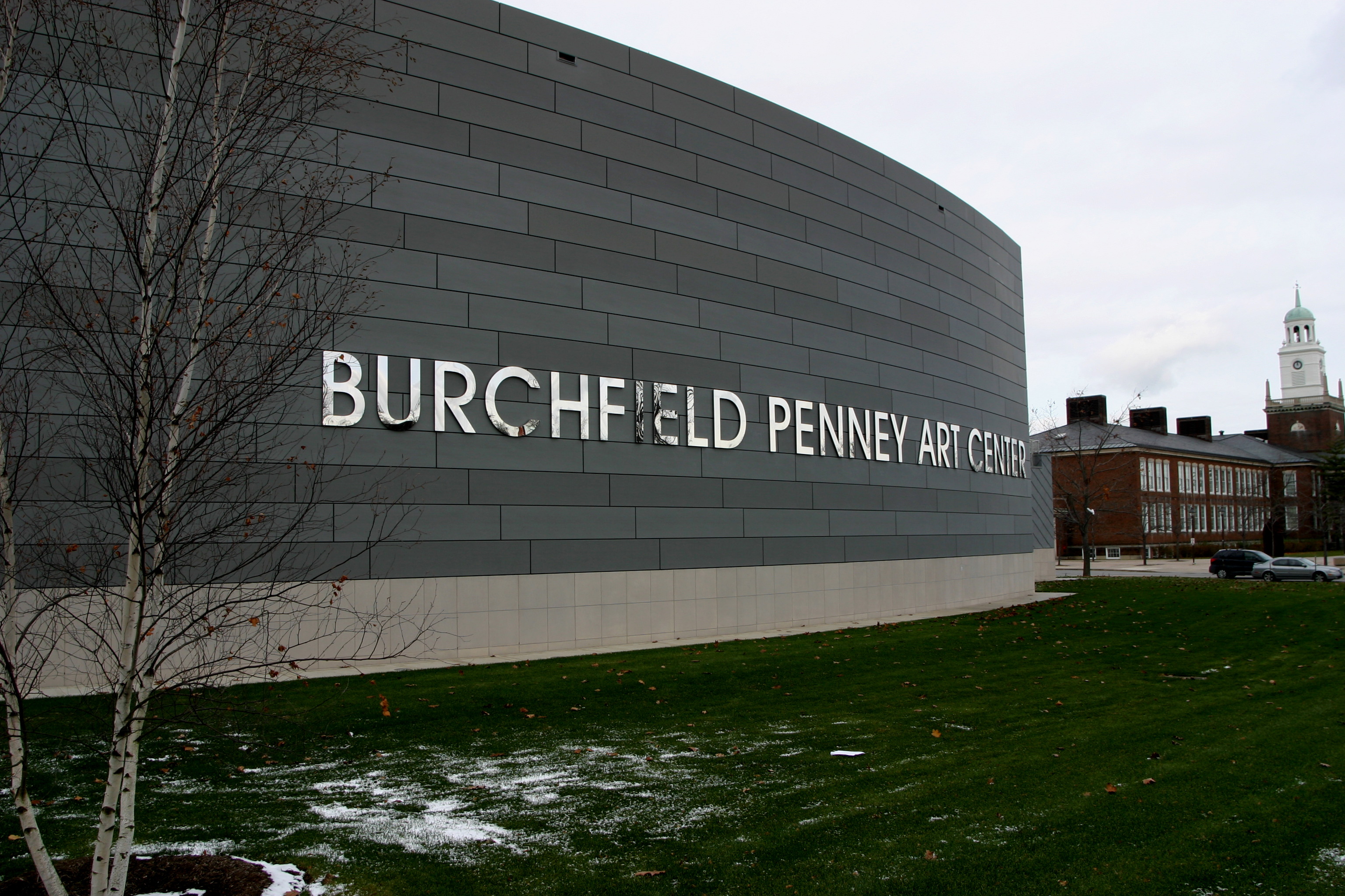 This is a picture of the Burchfield-Penney Art Center located on Buffalo State's campus in Buffalo, New York.